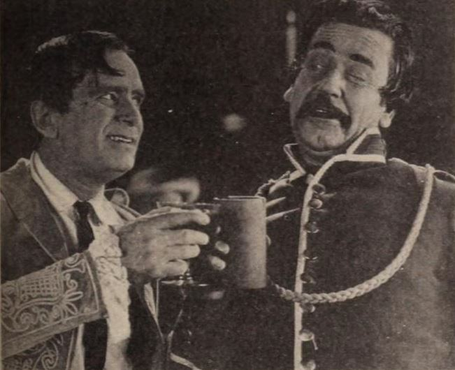 Still from the American adventure film The Mark of Zorro (1920) with Douglas Fairbanks and Noah Beery, on page 95 of the October 16, 1920 Exhibitors Herald.